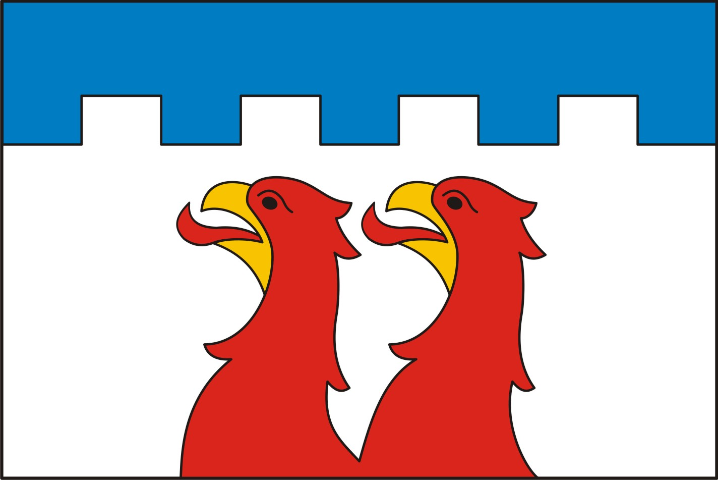 Flag of the village of Jenštejn, Czechia. Proposed in 2011 by Jan Tejkal, approved by the Chamber of Deputies of the Parliament of the Czech Republic on November 9, 2011. The main theme is the pair of red vulture heads in silver field, taken from the coat of arms of the lords of Jenštejn, a branch of the family of the lords of Vlašim.